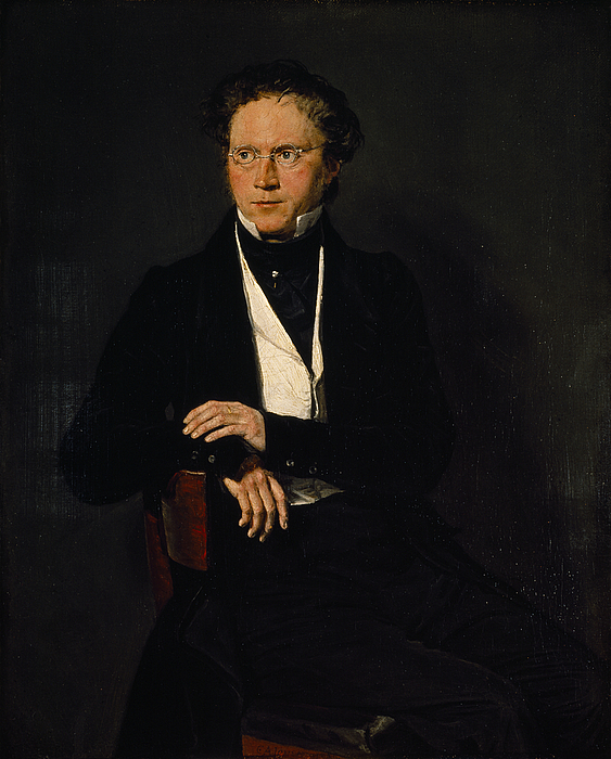 Portrait of the poet Ludvig Bødtcher by painter Christian Albrecht Jensen